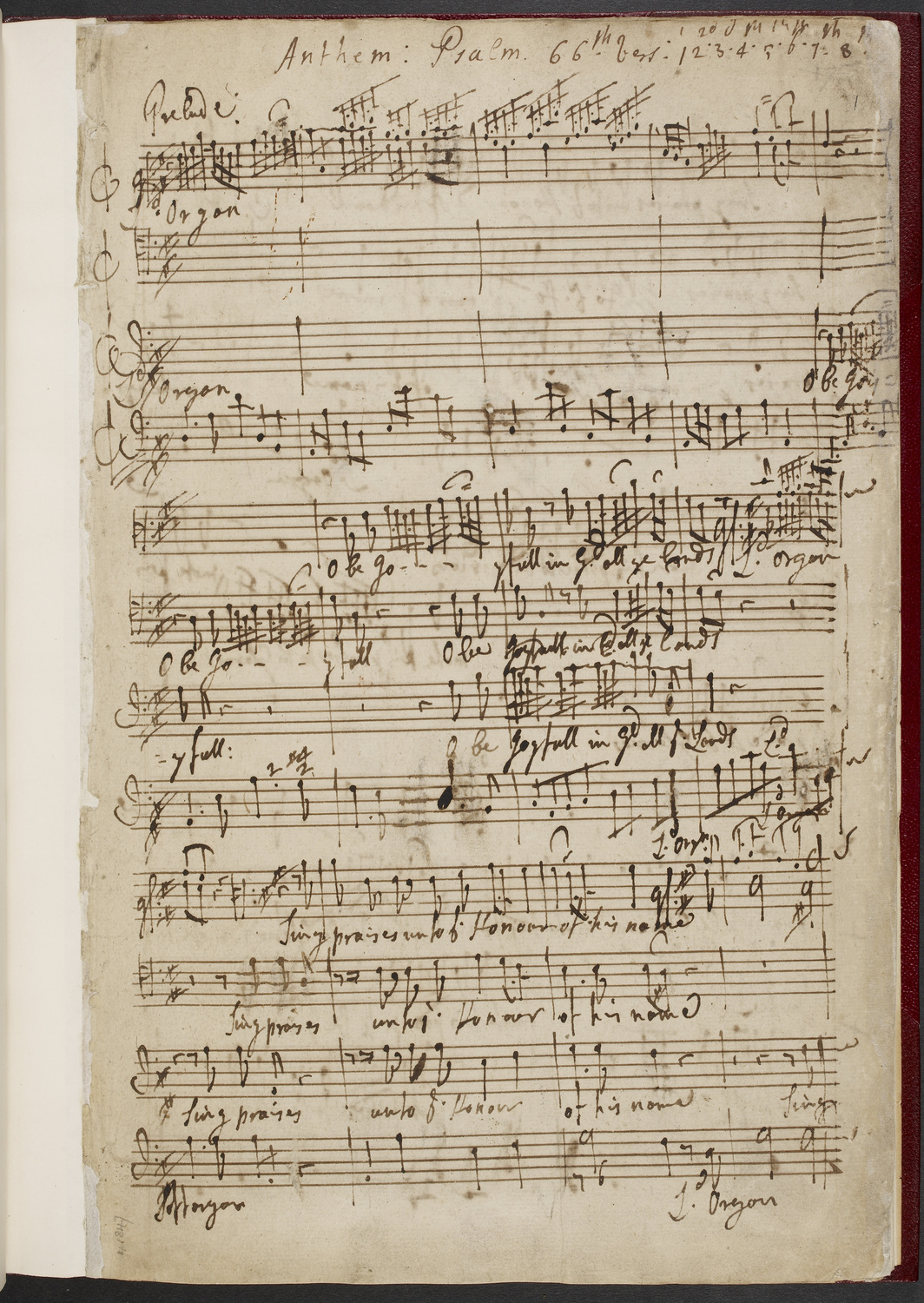 O be joyful in God. In the composer's hand.